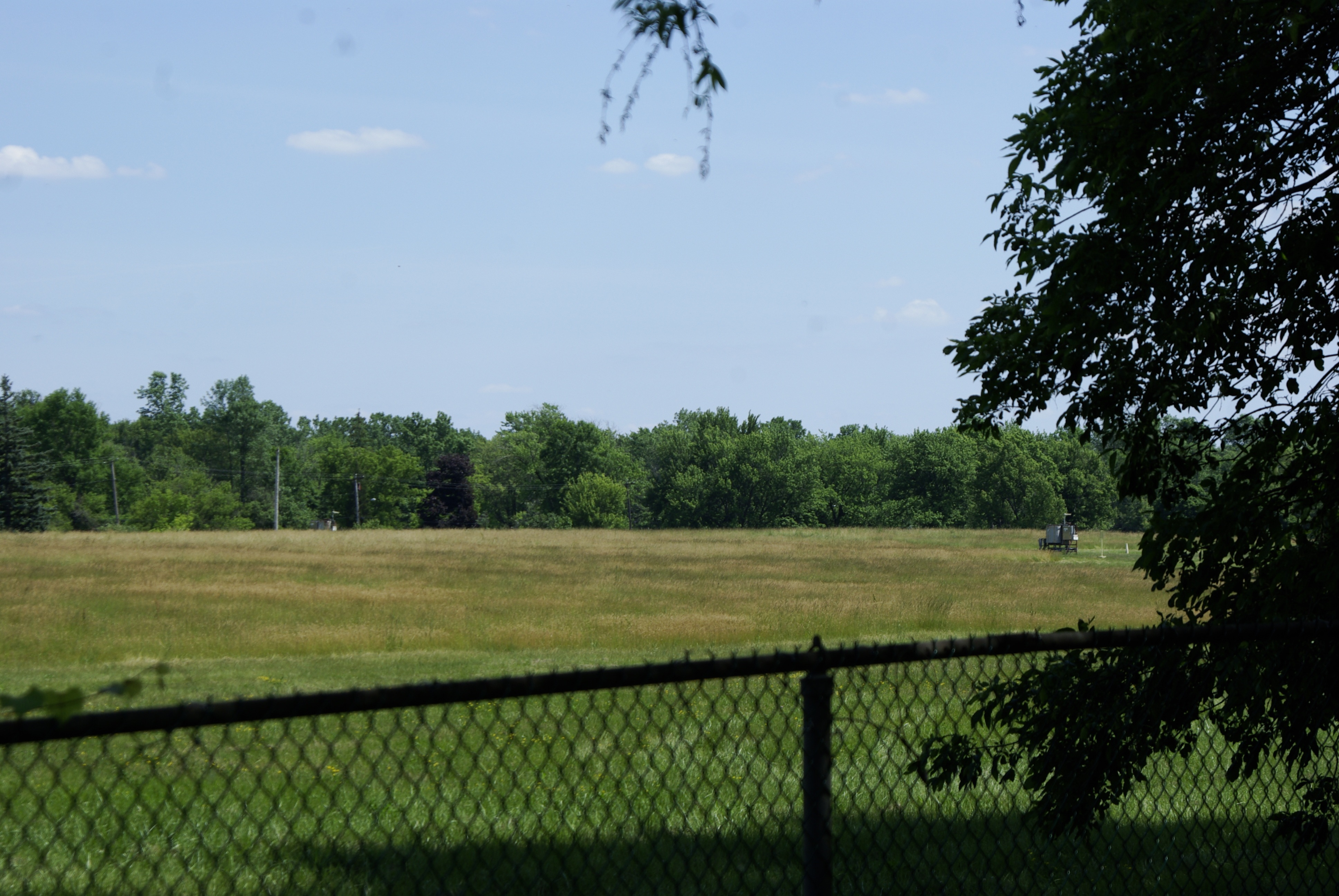 A view of Love Canal in 2012